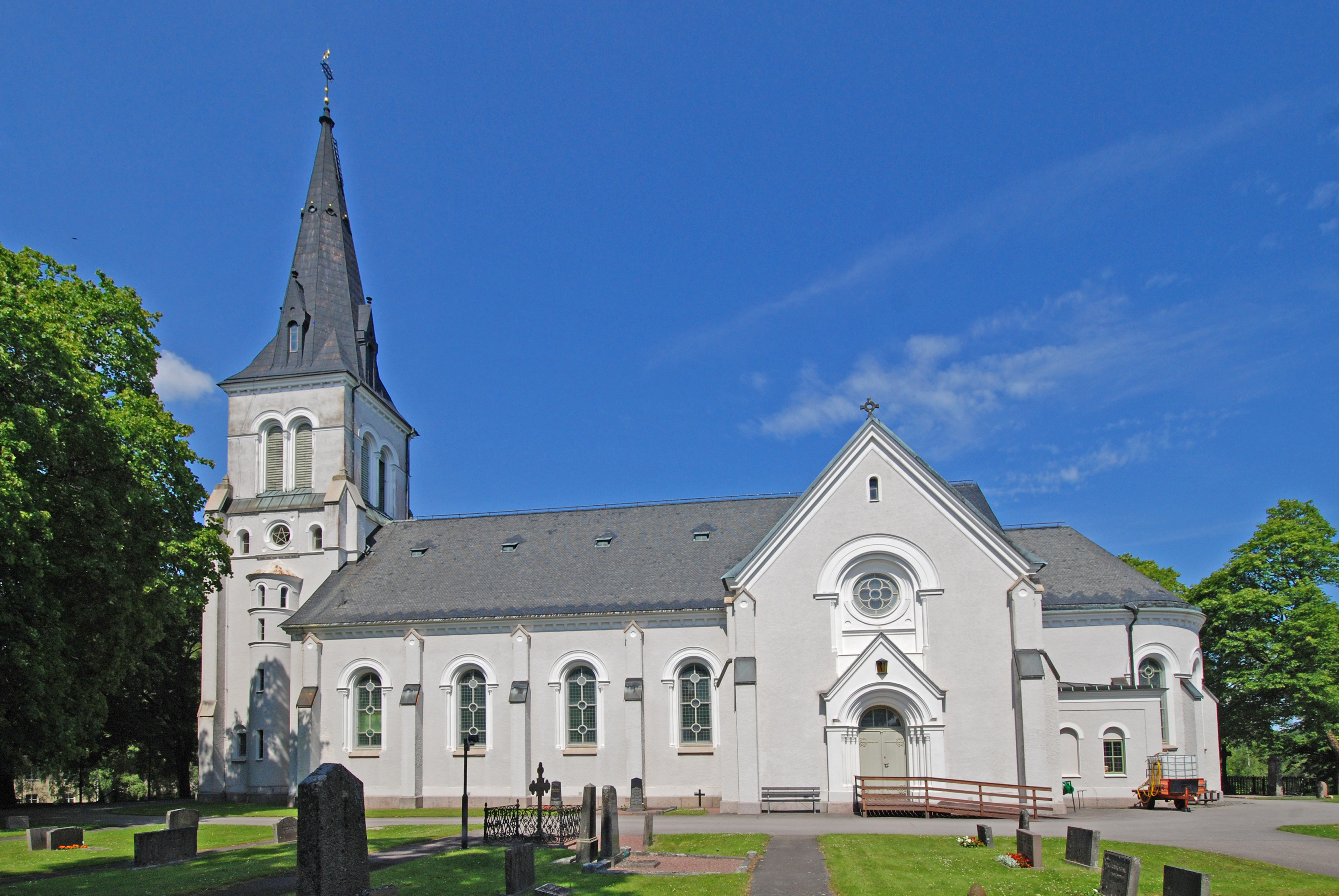 Kroppa kyrka